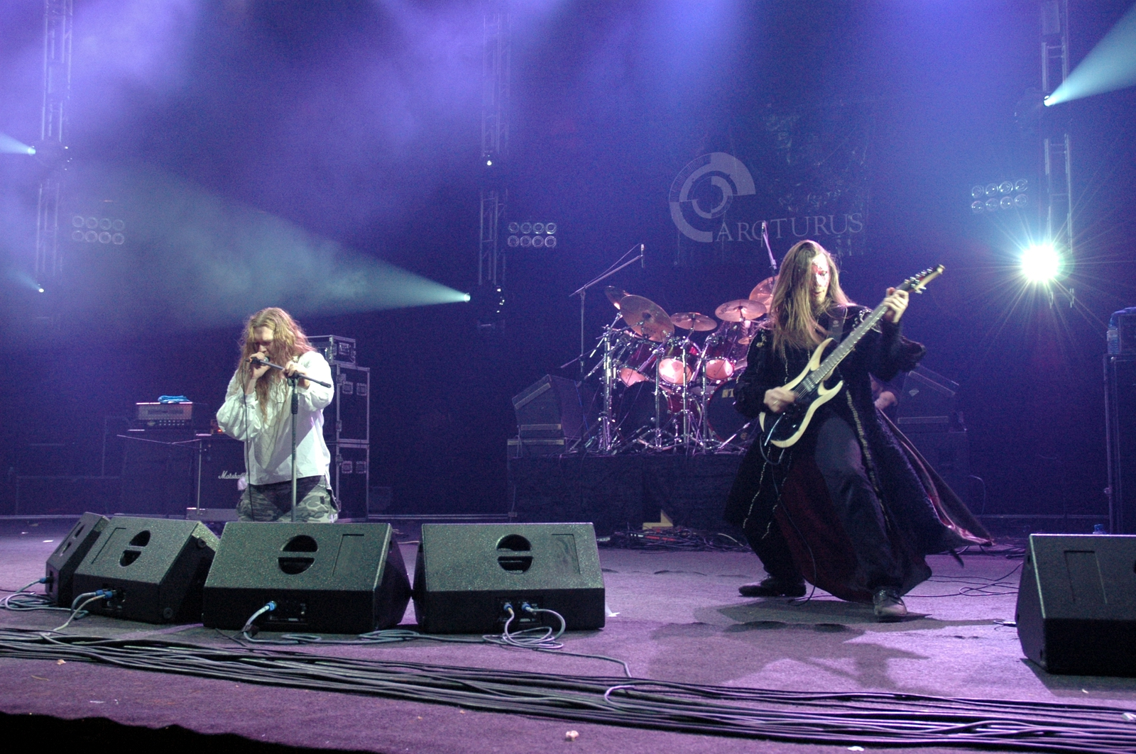 Arcturus band at Metalmania Festival 2005 in Poland - from left: Simen "Vortex" Hestnæs, Knut Magne Valle; Jan Axel "Hellhammer" Blomberg on drums